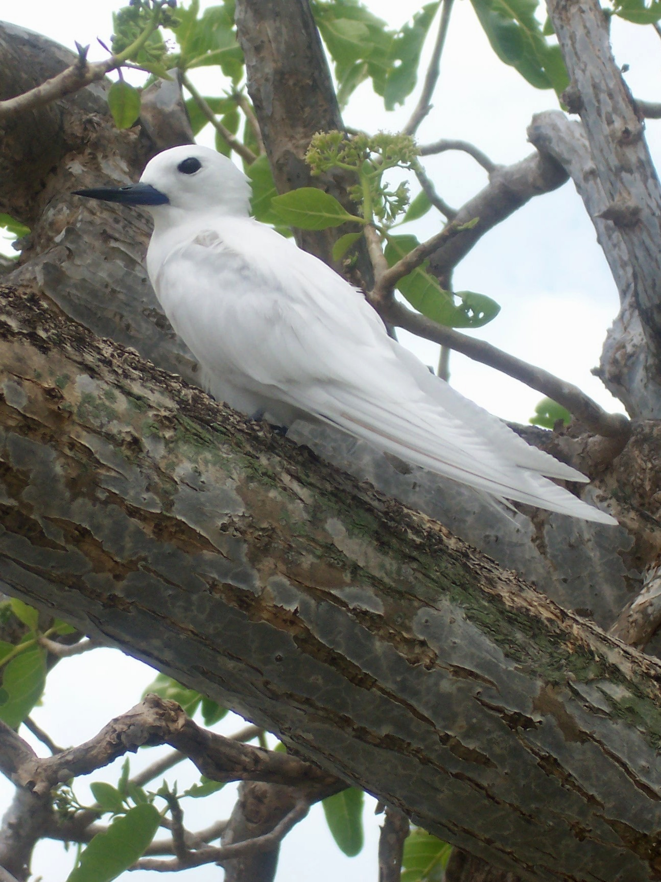 White Tern